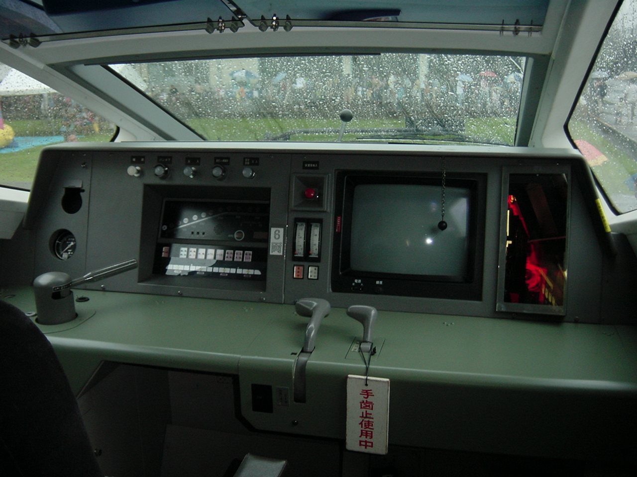 Control Room of 500-906, Control Car (Shin-Osaka Direction) of WIN350 (Displayed in Hakata Depot)